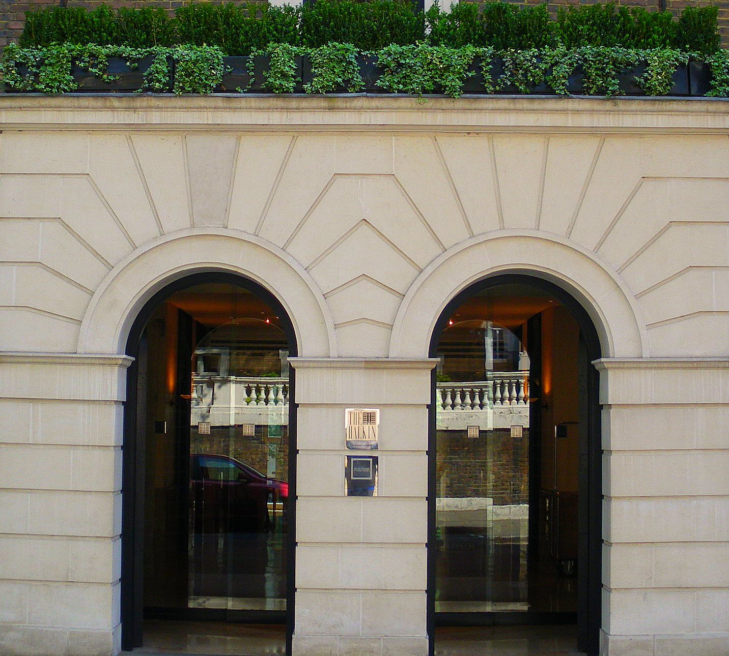 The Halkin Hotel, Halkin Street, City of Westminster, London SW1X 7DJ, England